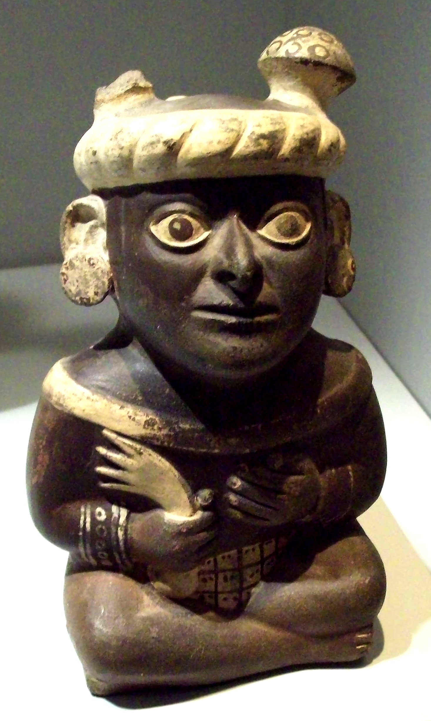 Ceramic vessel representing a nobleman. Moche Culture artwork from Peru, made between 100 BC and 700 CE.